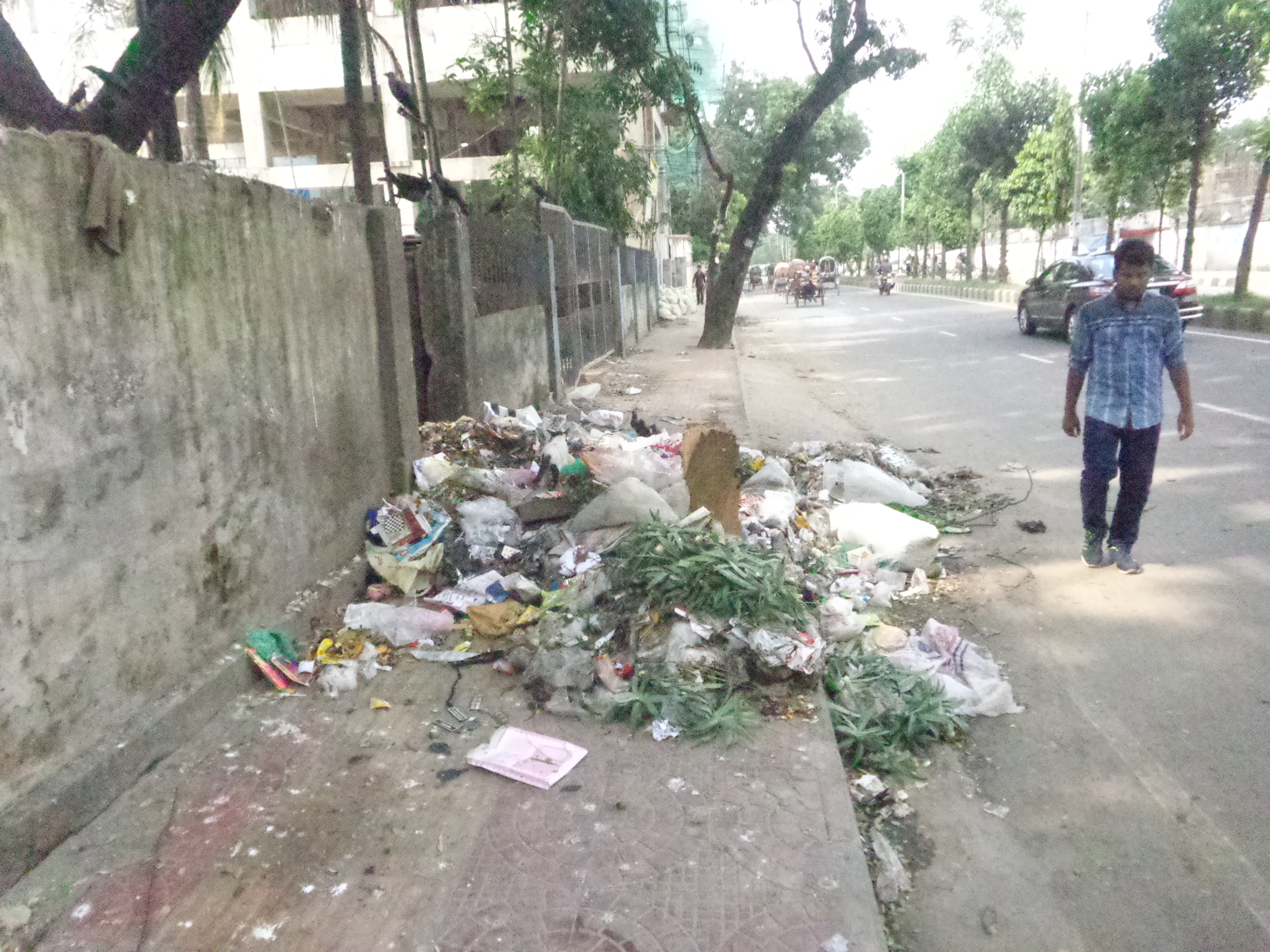 ঢাকার শান্তিনগর থেকে ছবিটি তোলা। প্রচুর দুর্গন্ধ আর নোংরা ডাস্টবিন থেকে প্ররিত্রান চায় শান্তিনগরের মানুষগুলো।